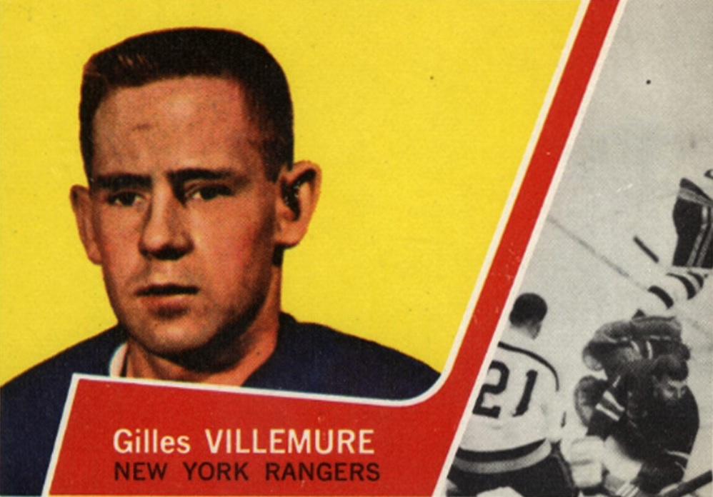 Gilles Villemure